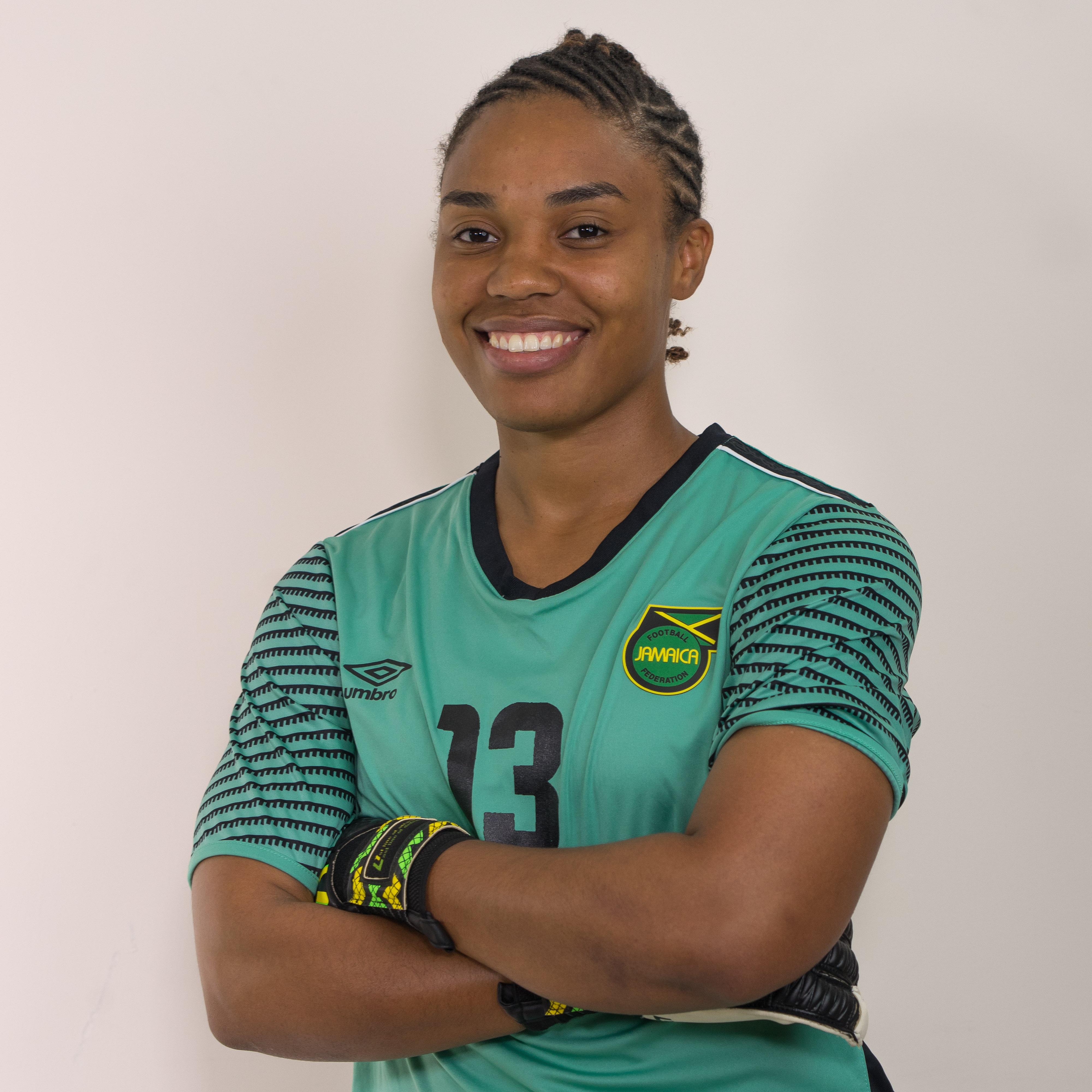 Reggae Girlz professional shot for World Cup